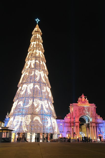 Bigest Christmas Tree in Europe Photography by Osvaldo Gago.